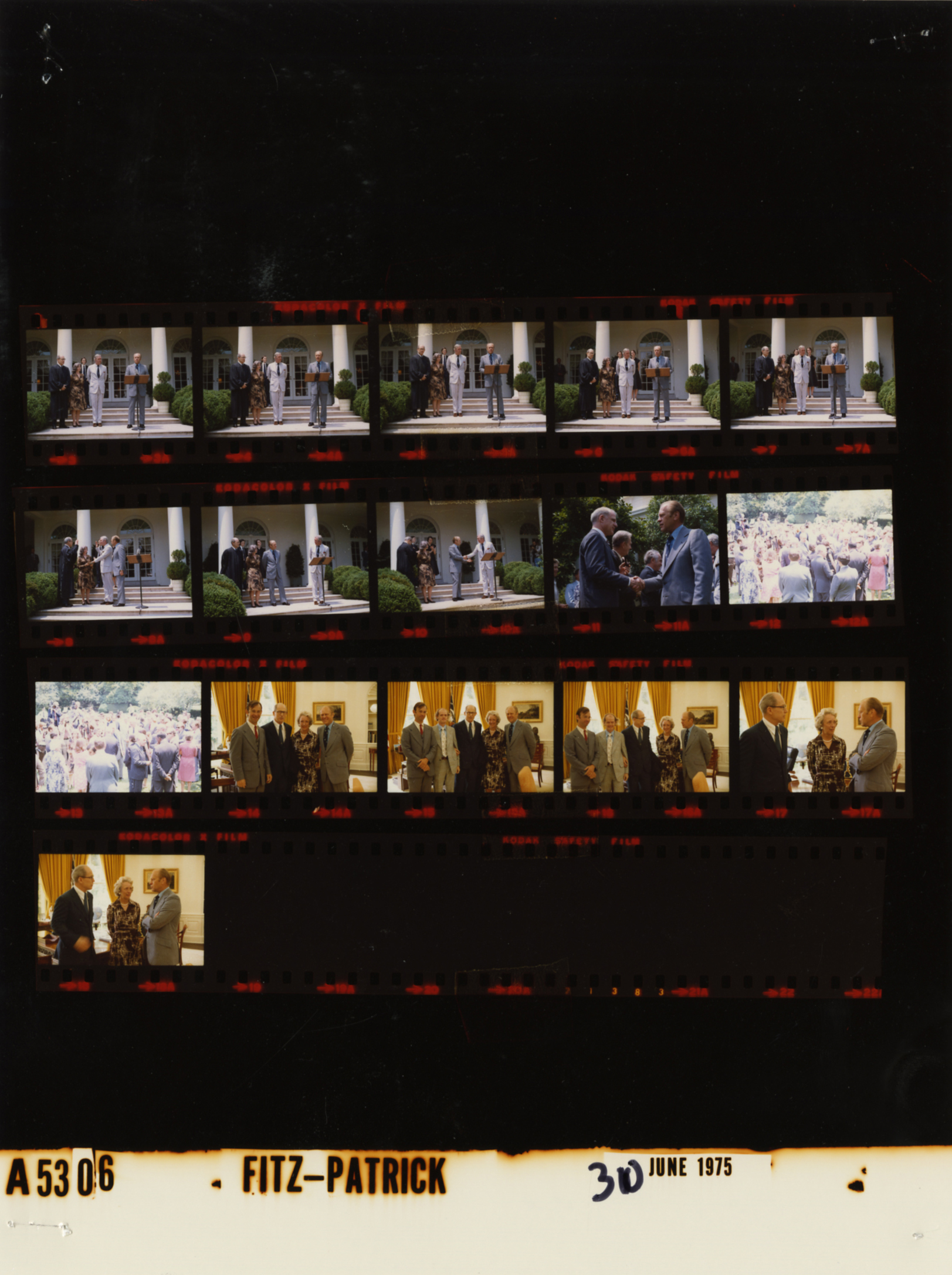 The photo contact sheet, identified as A5306 by the White House Photographic Office (WHPO), is housed at the Gerald R. Ford Presidential Library, a branch of the National Archives and Records Administration (NARA). This file is a 200 dpi photo contact sheet having images from roll of film A5306 of the August 9, 1974 - January 20, 1977 Gerald R. Ford White House Photographic Office Series A0001-A9999 and B0001-B2886 photographs. The date on the photo contact sheet is the date the roll of film was processed, not necessarily the date the photographs were taken. See table below for additional details.